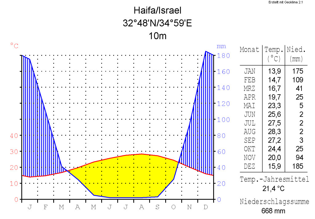 climate chart in the format by Walter and Lieth, metric, °Celsisus and millimeters, made with Geoklima 2.1